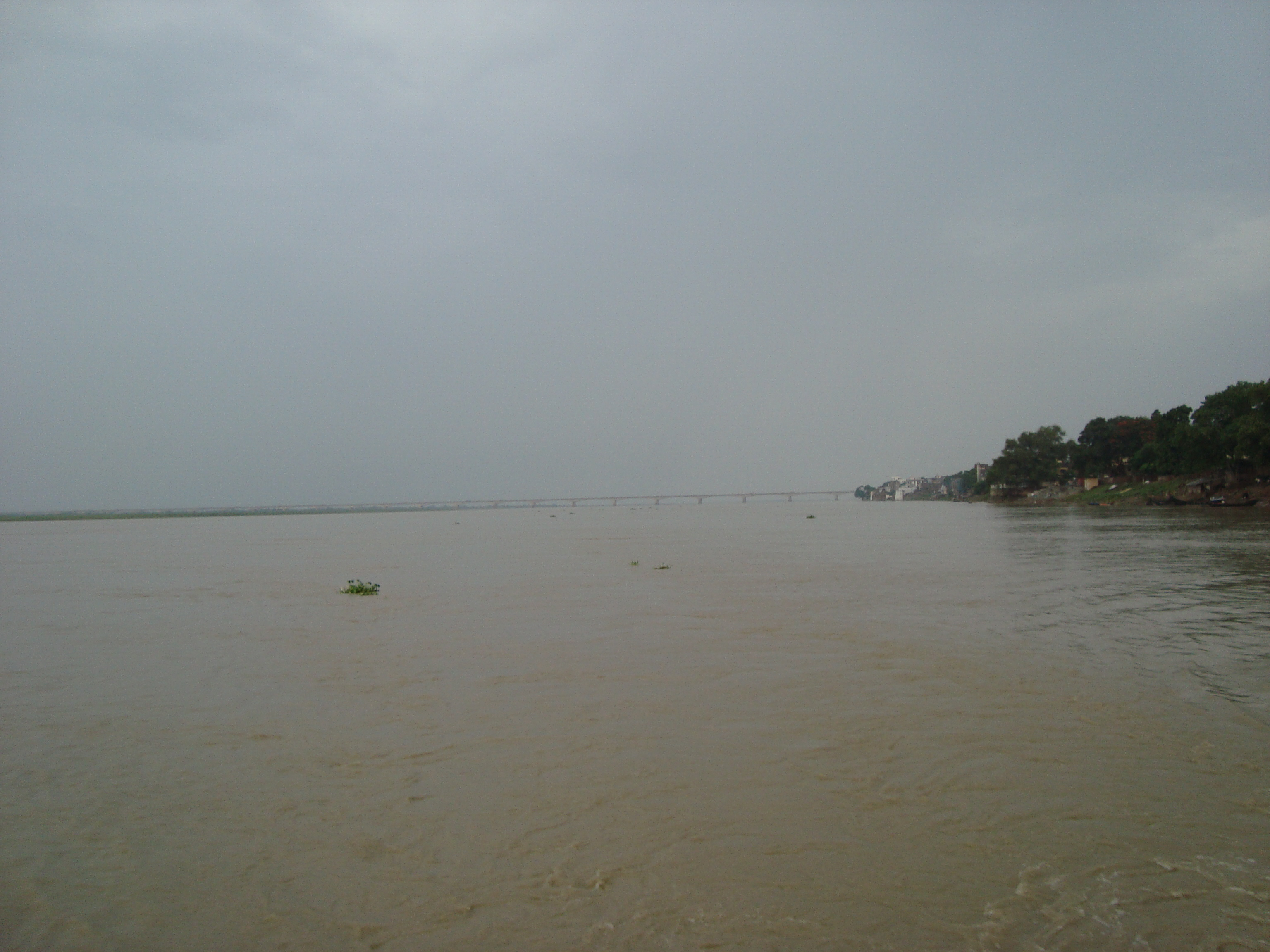 The river of Ganges with Mahatma Gandhi Setu shown in background.